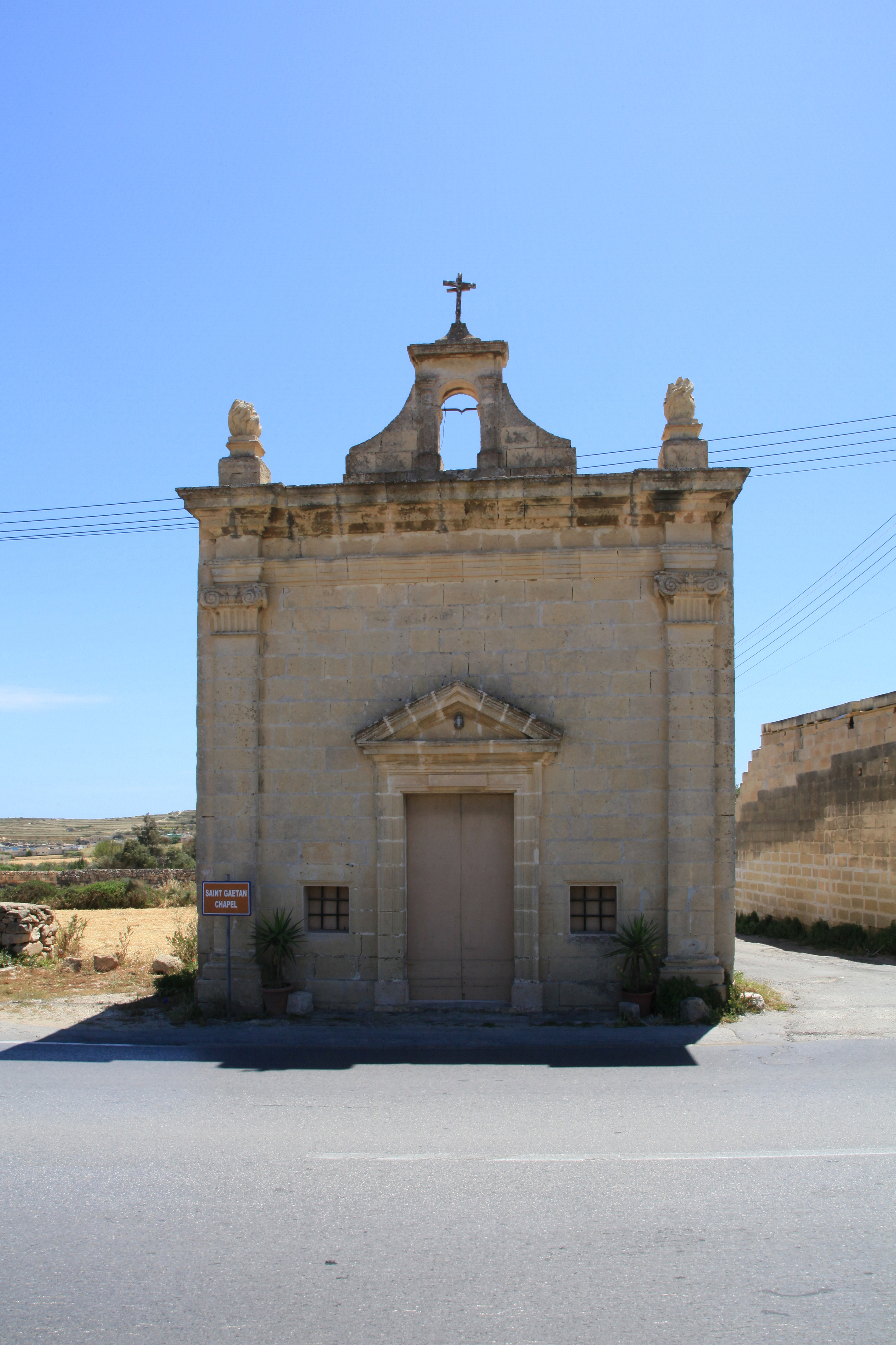 St. Cajetan Church at Triq id-Dahla ta' San Tumas in Marsaskala, Malta